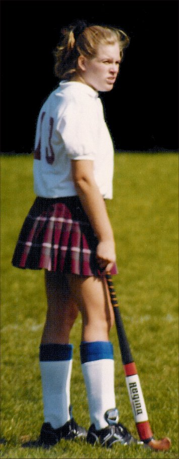 Helga dressed for field hockey. created by Seamus.